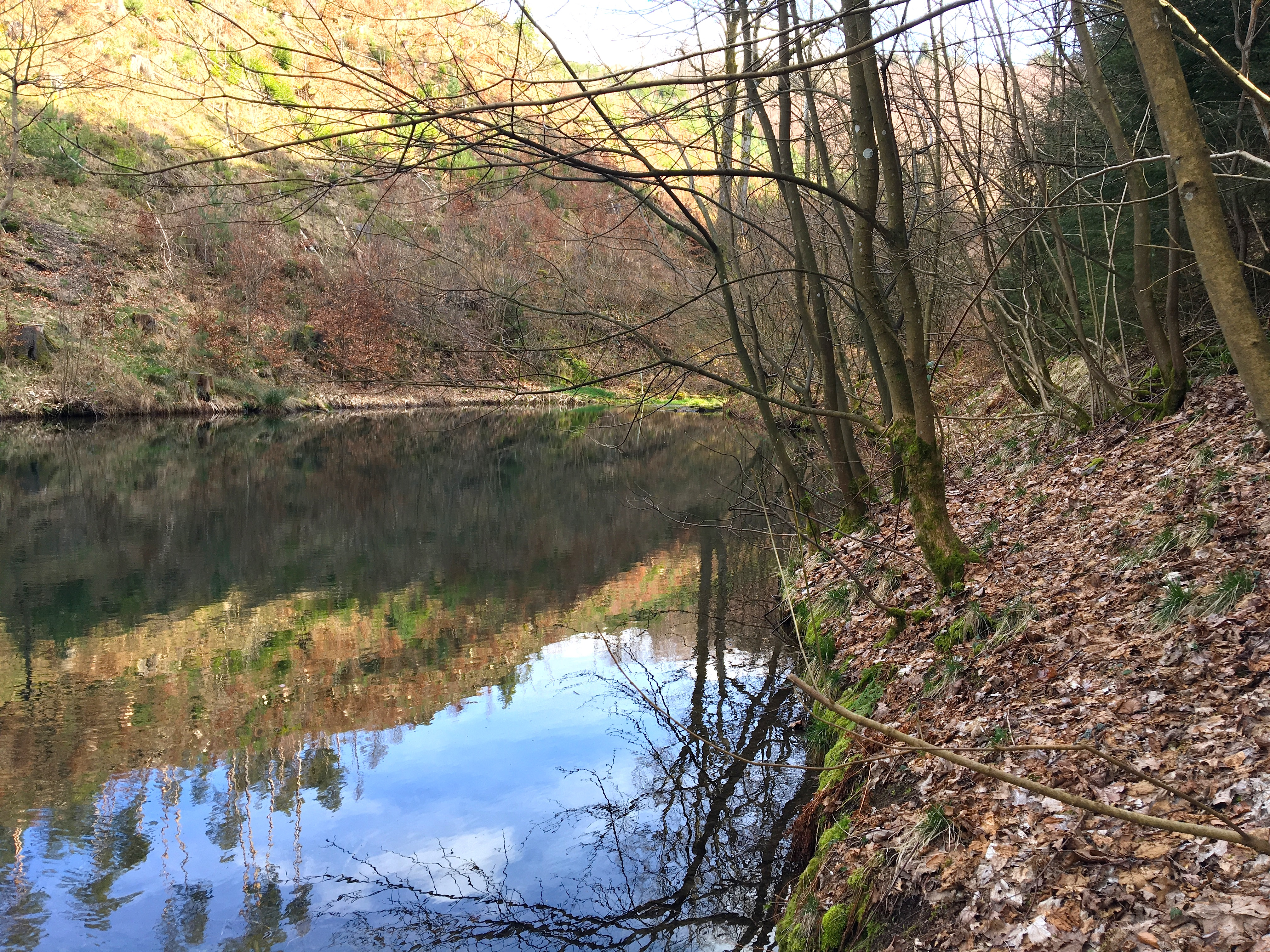 Wiki-bike-photo-expedition: Nette River and its valley. The inflow of the Lenne River near the town of Alten, North Rhine-Westphalia, Germany.